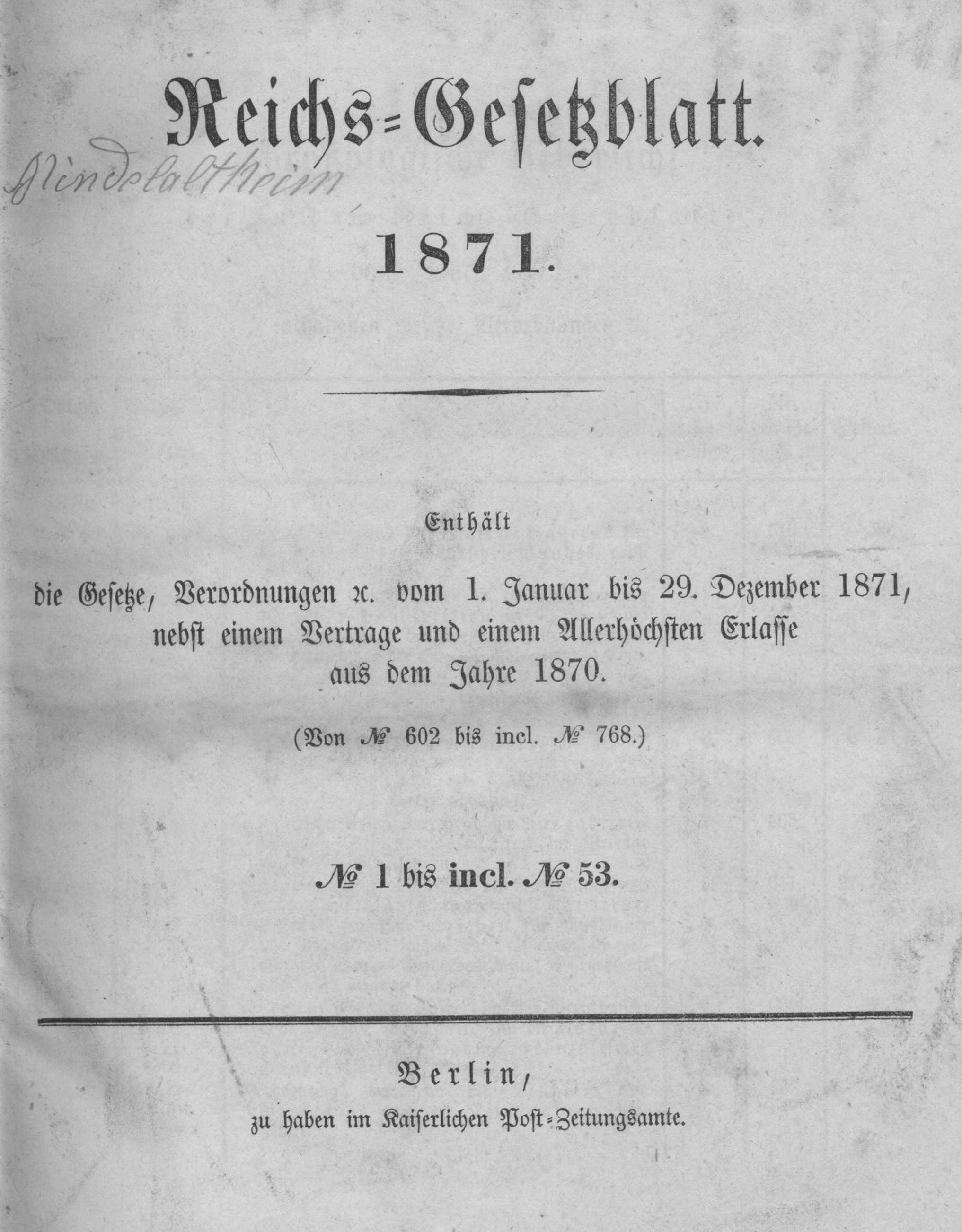 Scan from the Imperial Law Gazette of Germany, 1871